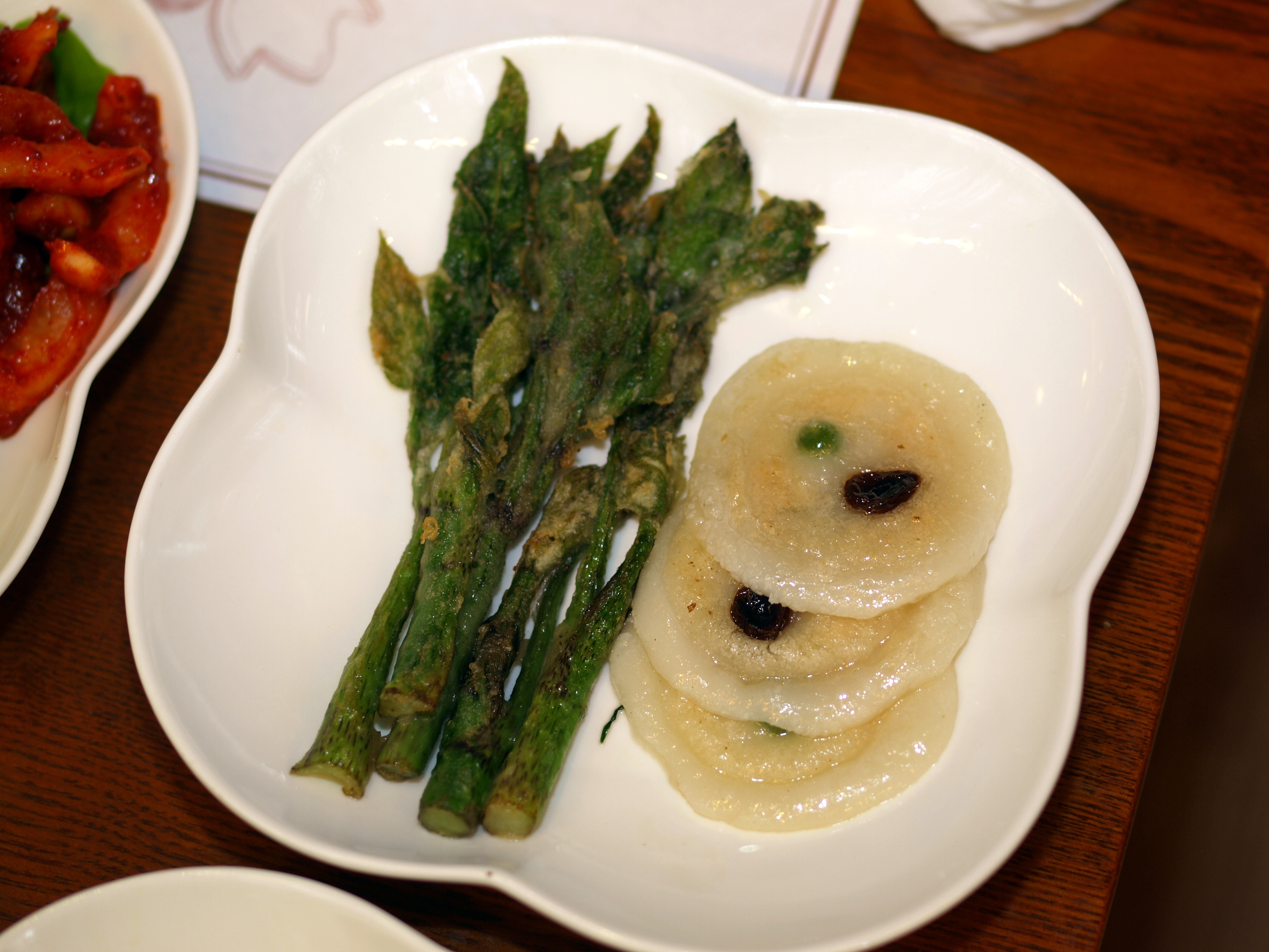 Dureup bugak (두릅부각), fried shoots of Aralia elata coated with glutinous rice paste) and chal jeonbyeong (찰전병), which is made by pan-frying glutinous rice flour in Korean cuisine